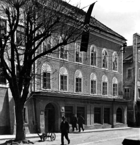 Adolf Hitler's birth house in Braunau am Inn (Austria) in about 1934, the roof blows a swastika flag.